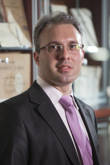 др Атила Дудаш